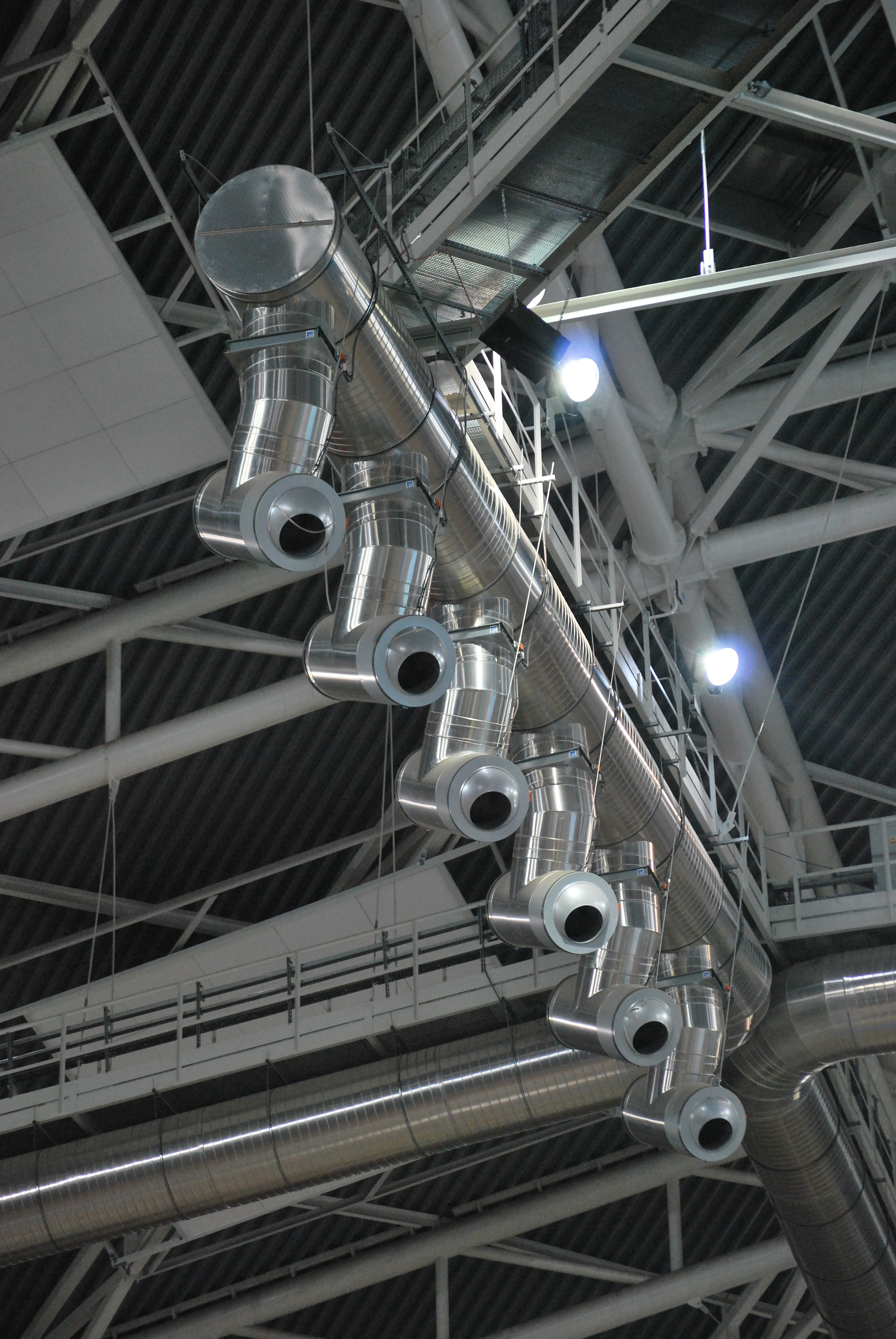 Atlas Arena ventilation pipes